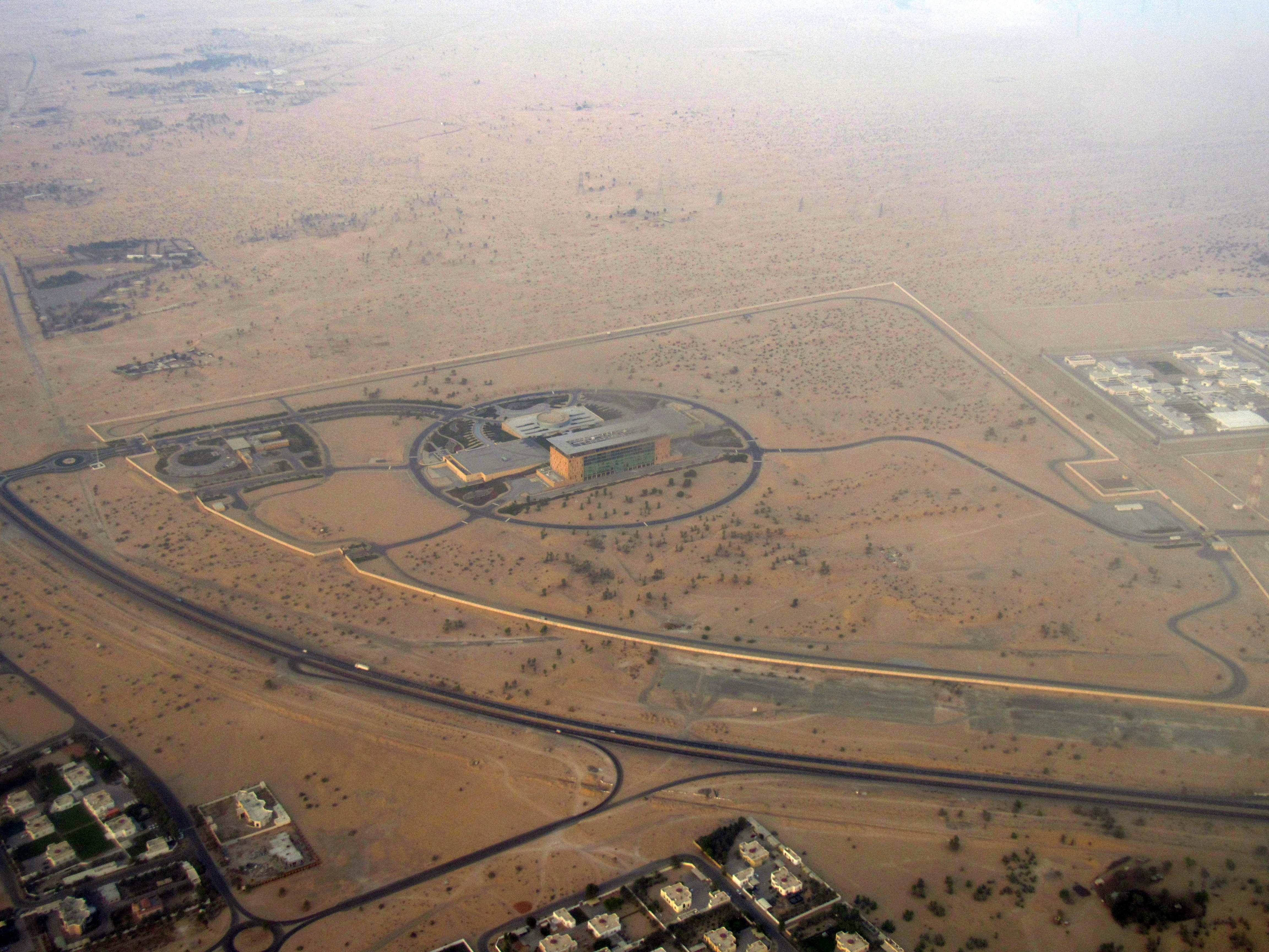 Aerial photograph of the E44 highway in Dubai, UAE.